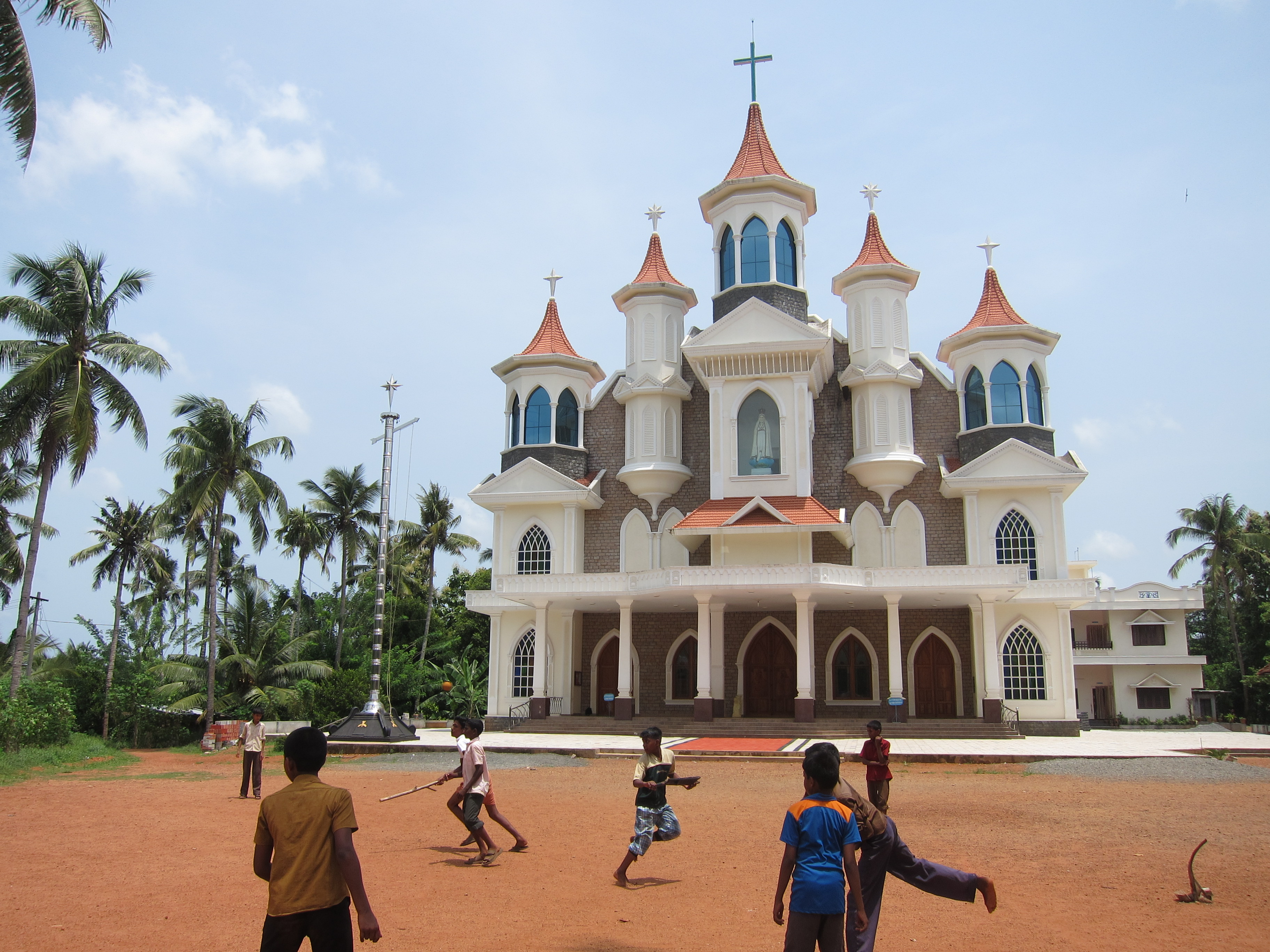 Kottanellur Fatimamatha Church Velukkara Panchayat Thrissur District Irinjalakuda Diocese Thrissur Arch-Diocese Roman Catholic Syro Malabar 7 km away from Irinjalakuda. 16 km away from Chalakudy